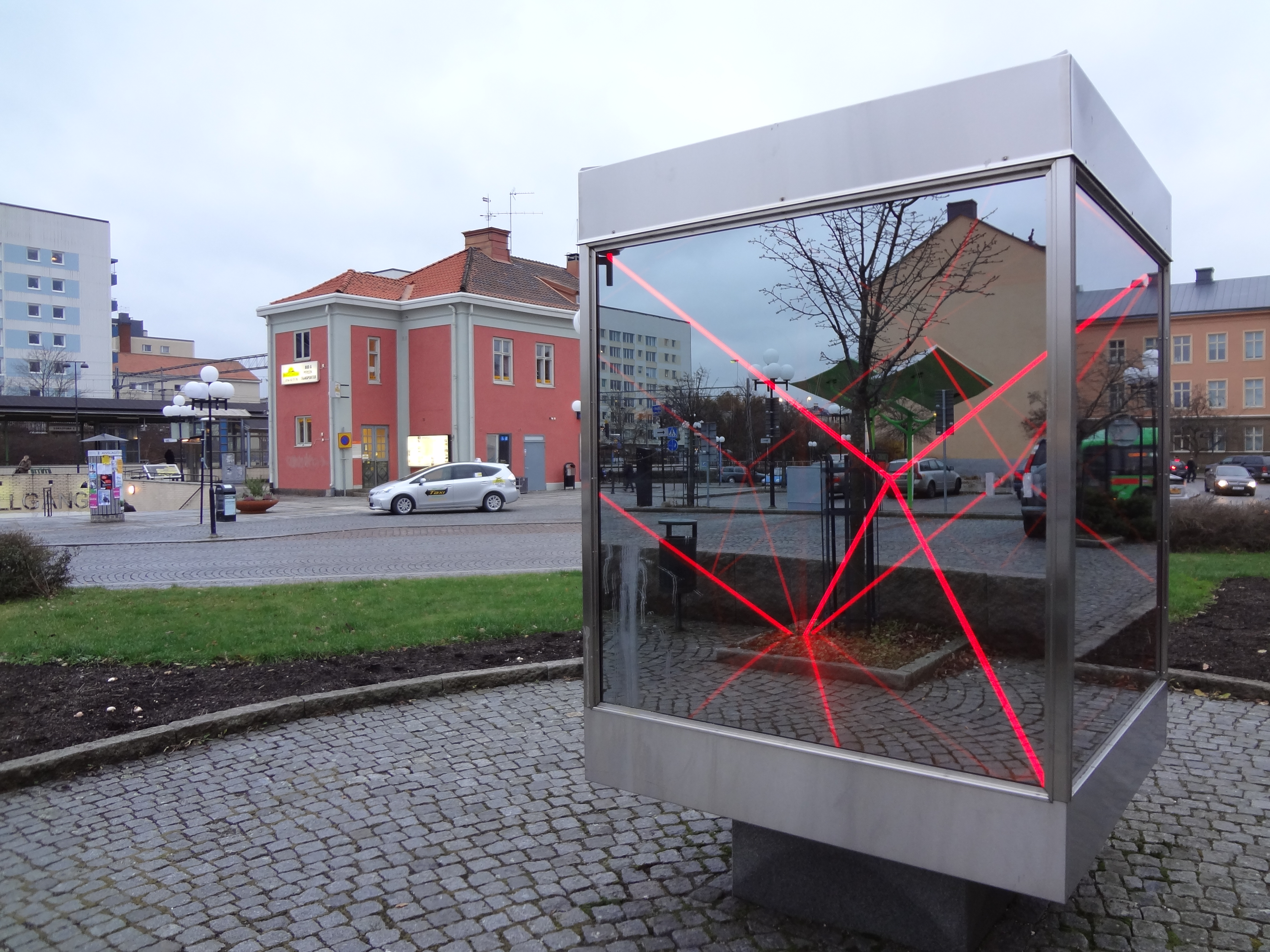 Sculpture "Kuben" (en:"The cube") by Osmo Valtonen. Placed at railway station in Eskilstuna, Sweden. Photo taken November 2012.